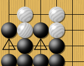 A simple position to show the concept of false eyes in go